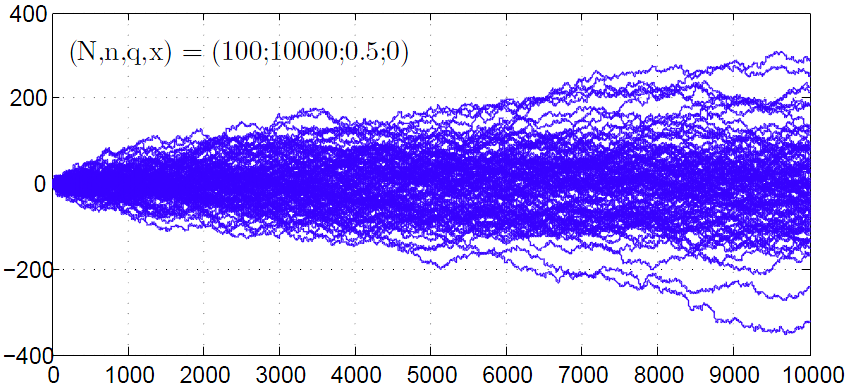 An examples of a random walk in MATLAB 2010. 100 traces, length 10000, the probability of loss is 0.5.